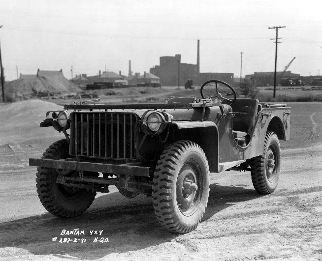 Car, Bantam, 1/4 Ton, 4×4 Light Reconnaissance. This BRC-40 was photographed during Army testing.